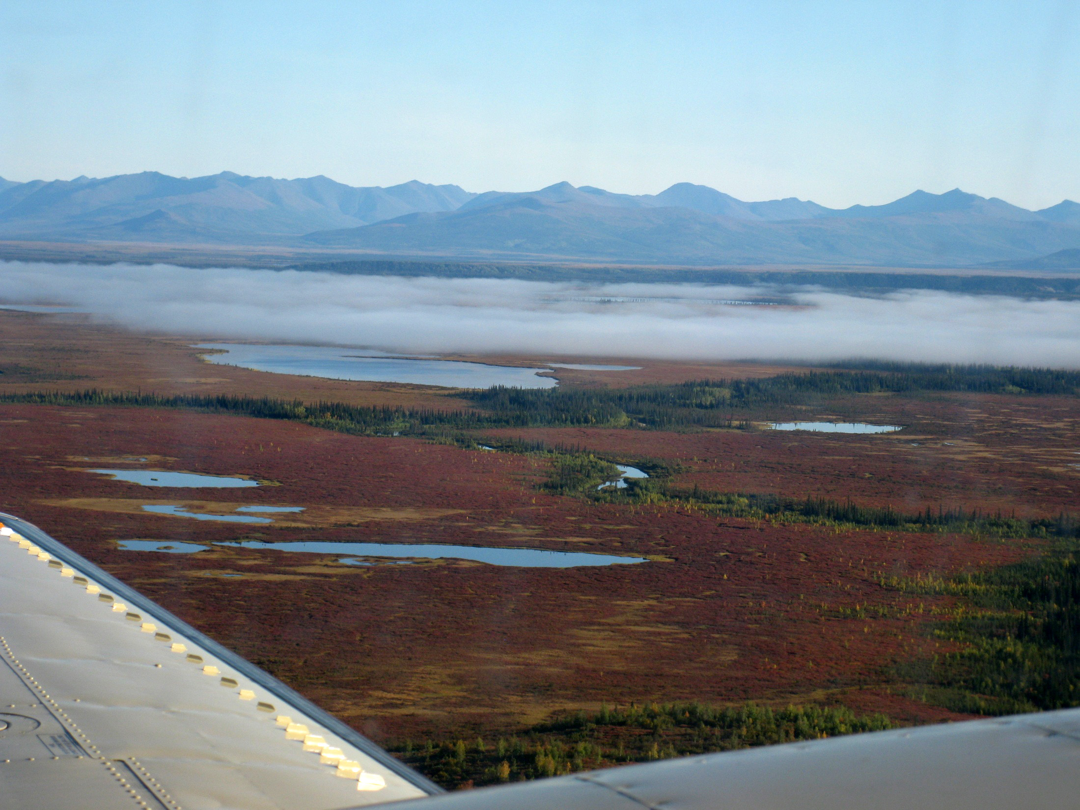 Kobuk Valley, arctic lakes, permafrost, tundra